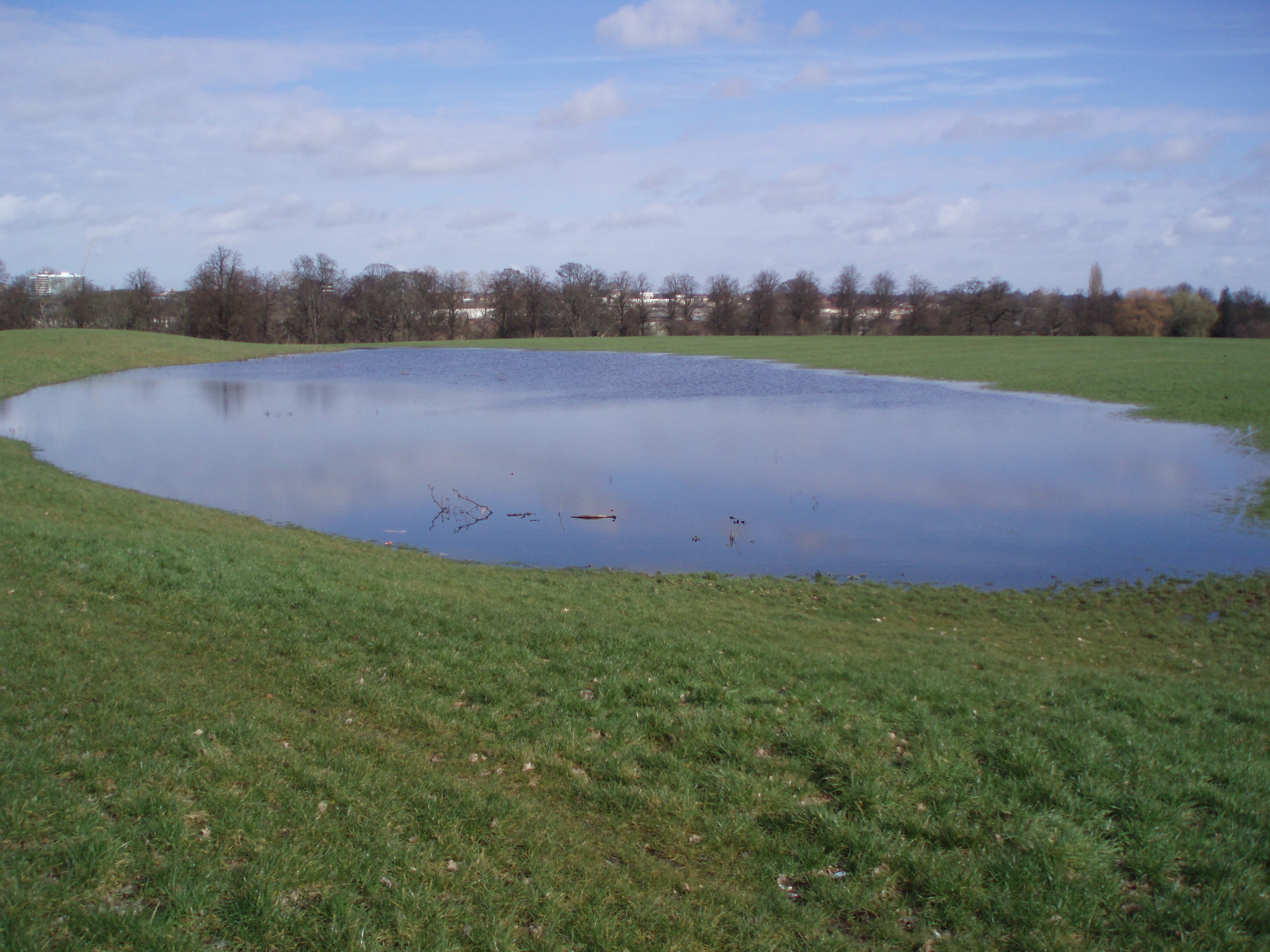 A flooding lake at Delapre Abbey formed as a result of bunding added by Northampton Borough Council. Picture by R Neil Marshman (c) - see metadata.